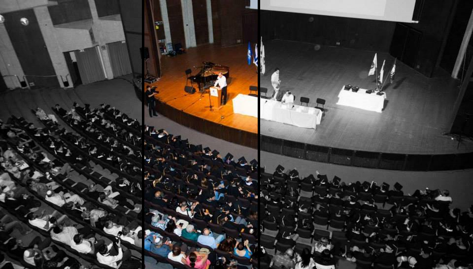 Lander Institute 2013 Graduation Ceremony